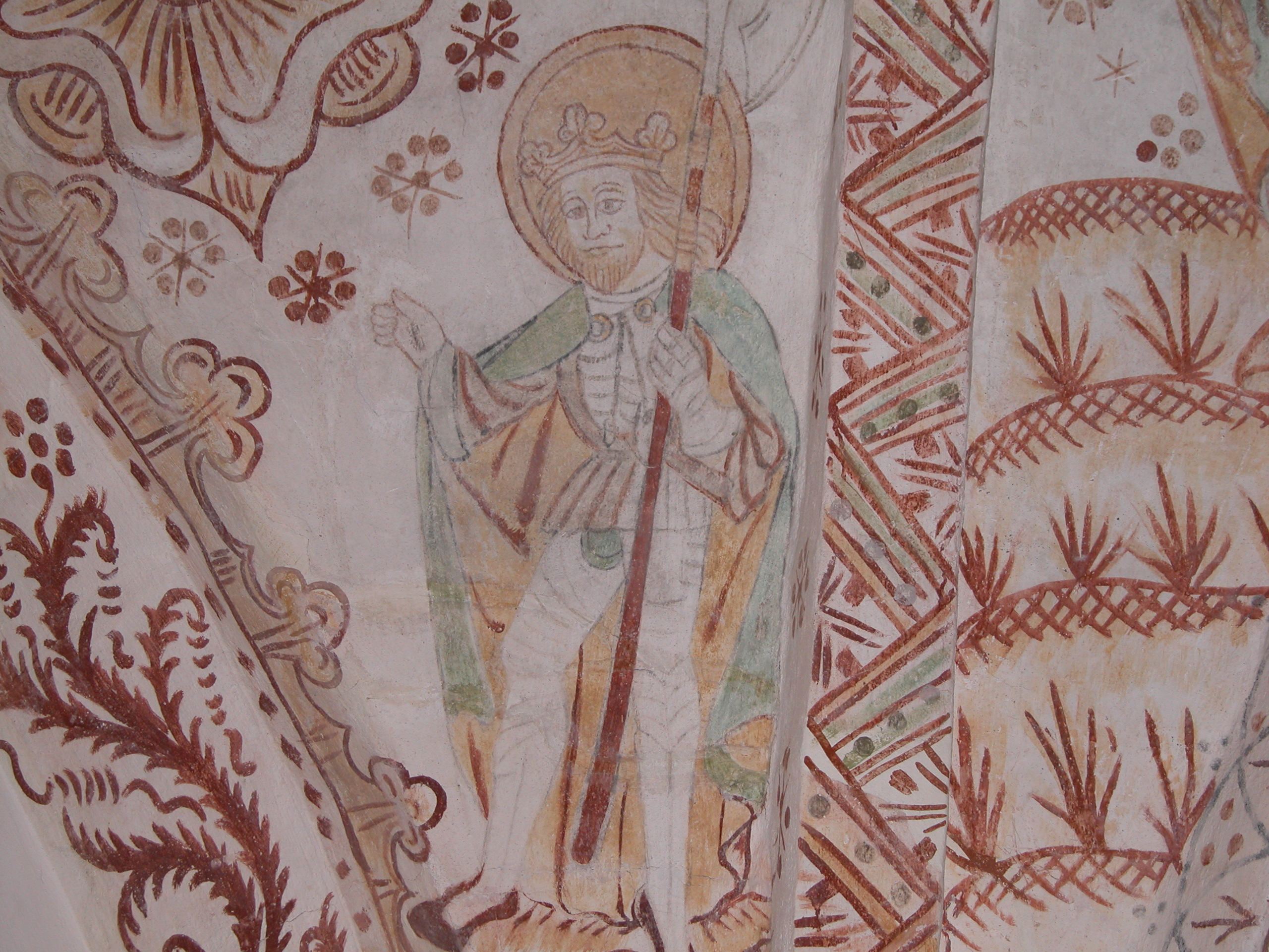 St. Olav - Olaf Haraldsson (Old Norse Óláfr Haraldsson, 995 – July 29, 1030), was king of Norway from 1015–1028, (known during his lifetime as "the Fat" (Óláfr Digre) and after his canonization as Saint Olaf or Olaus).